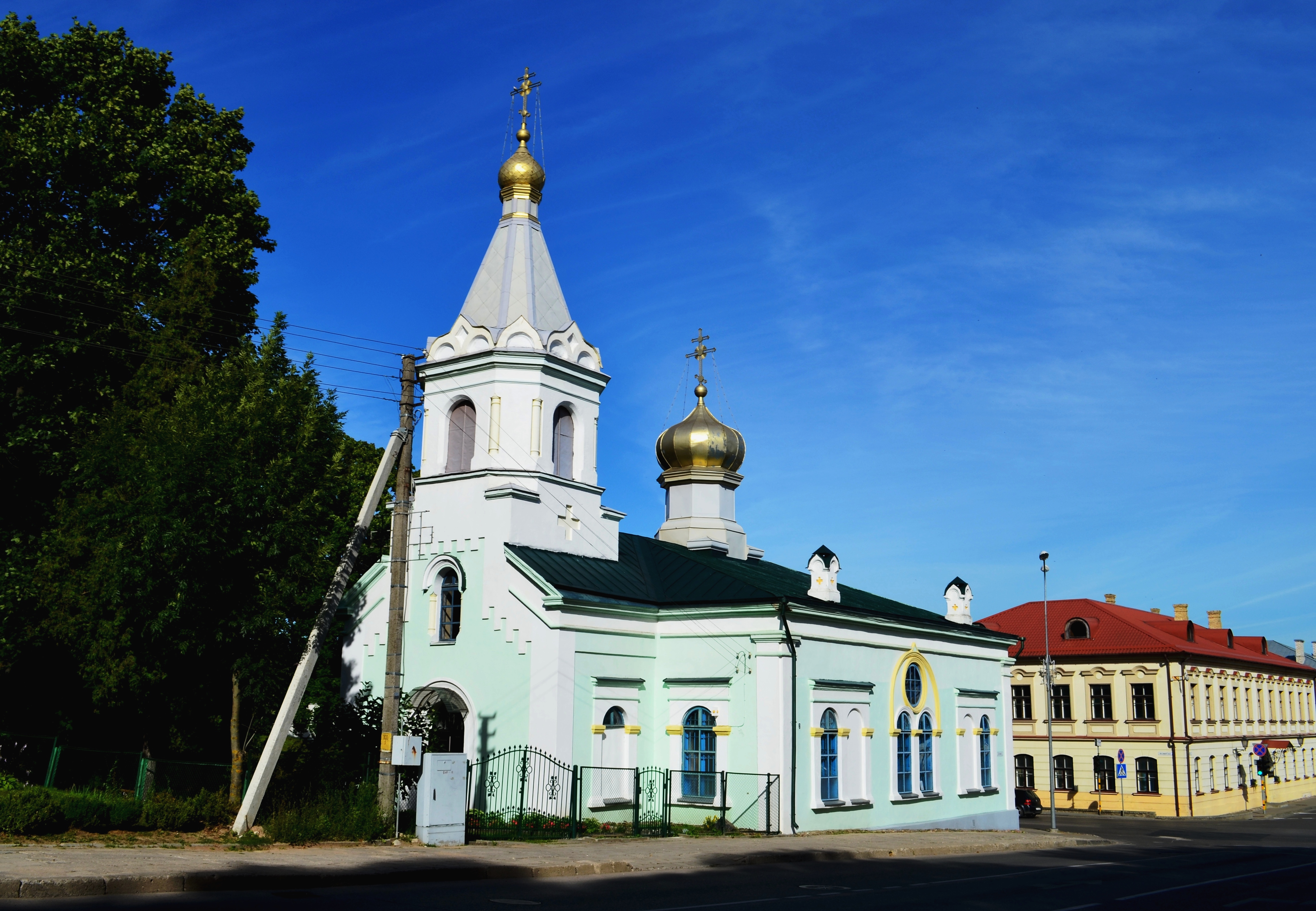 Holy Transfiguration Church, Kėdainiai, Lithuania